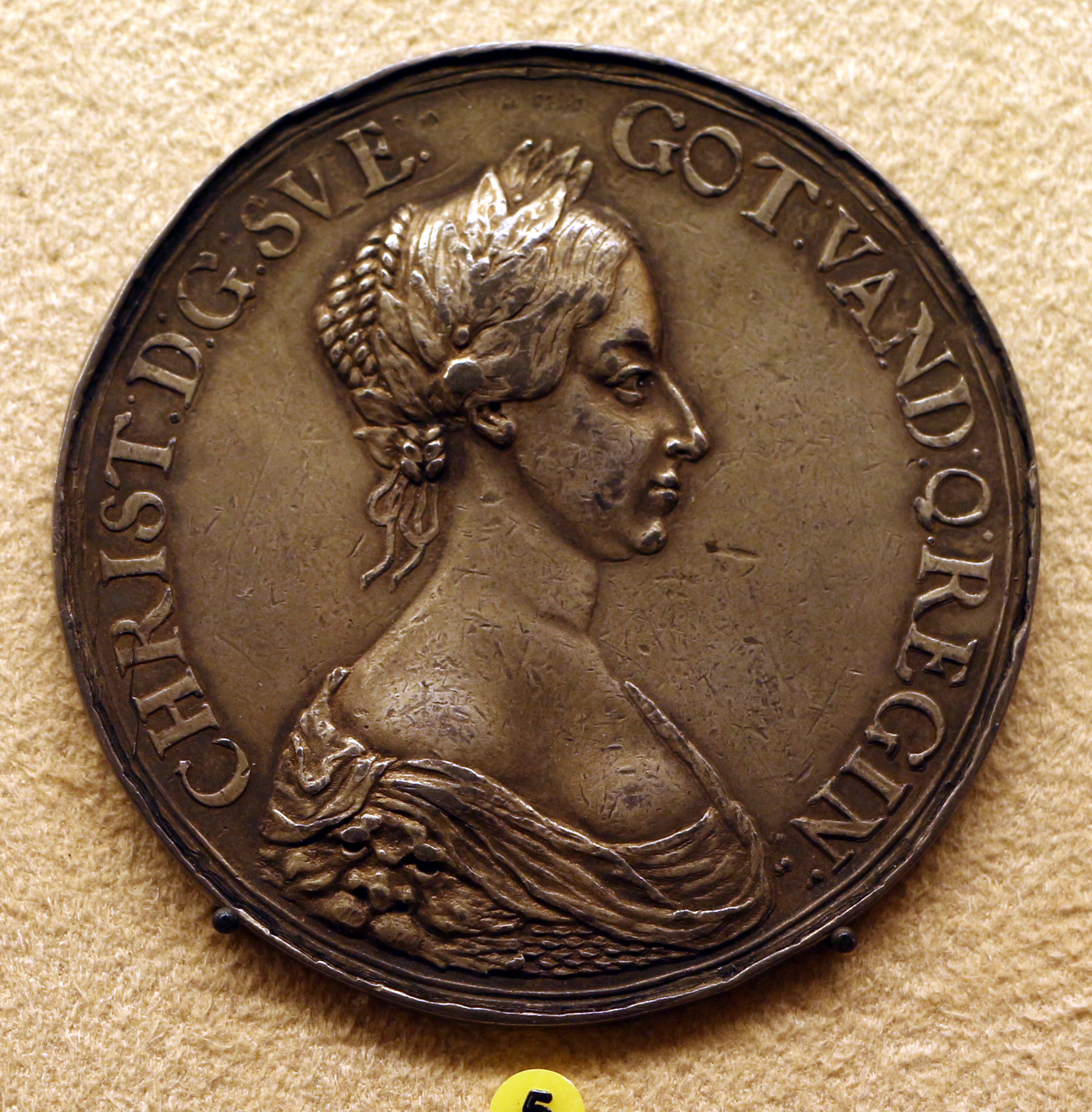 Coins and medals in the National Museum of Finland